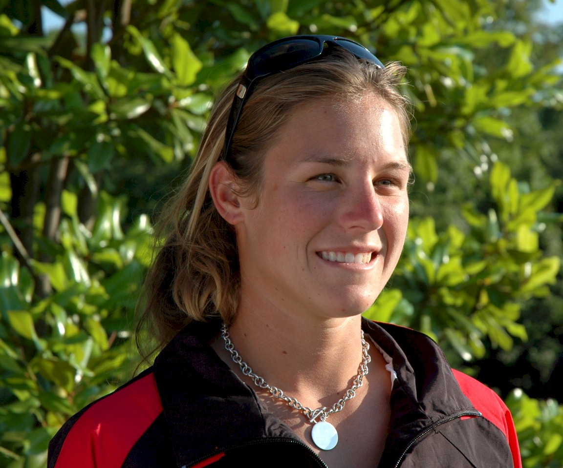 A beautiful picture of Regina Jaquess